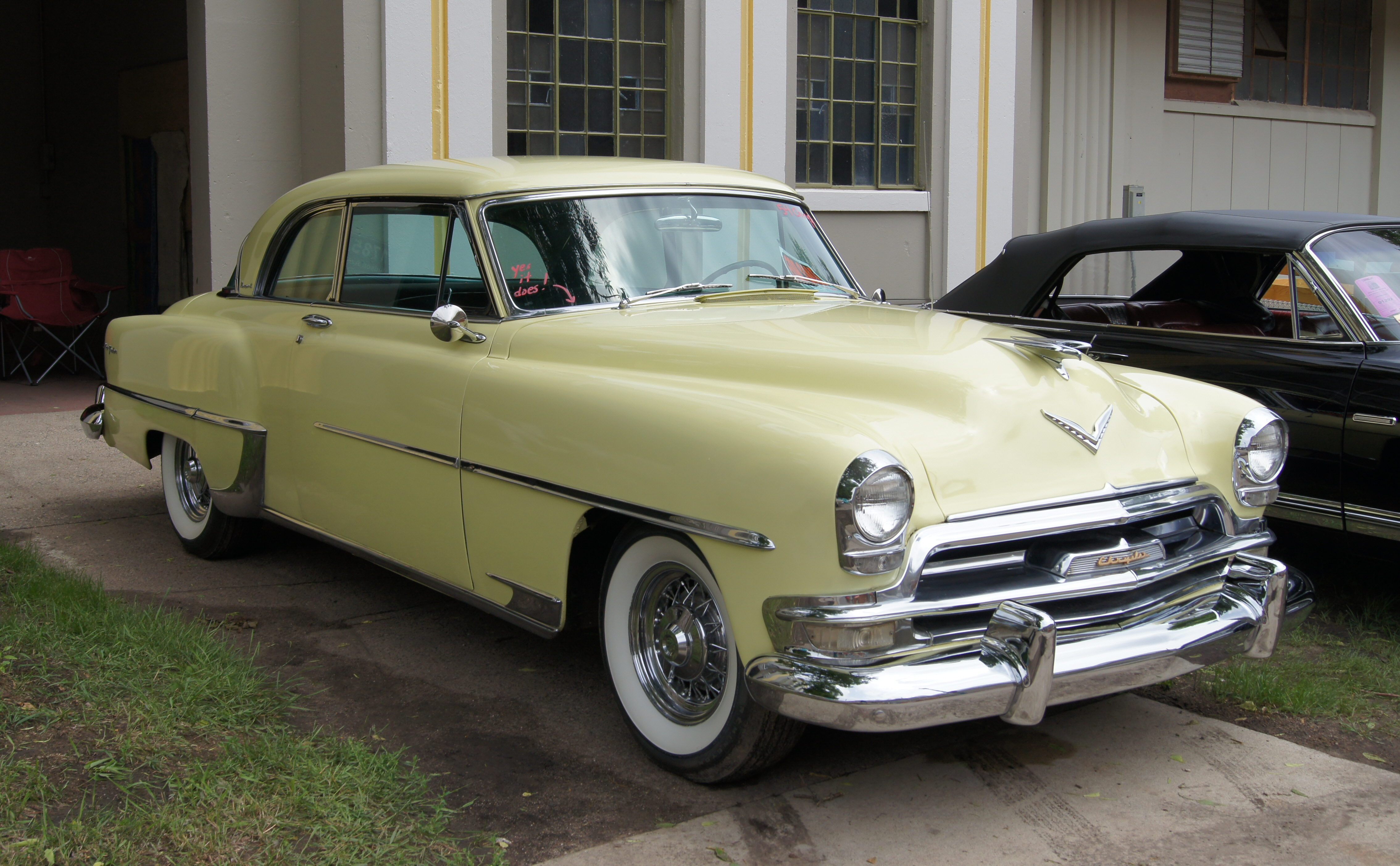 MSRA “BACK TO THE 50′s” 40th ANNIVERSARY June 21-23, 2013 State Fairgrounds St. Paul Minnesota More Car Pictures